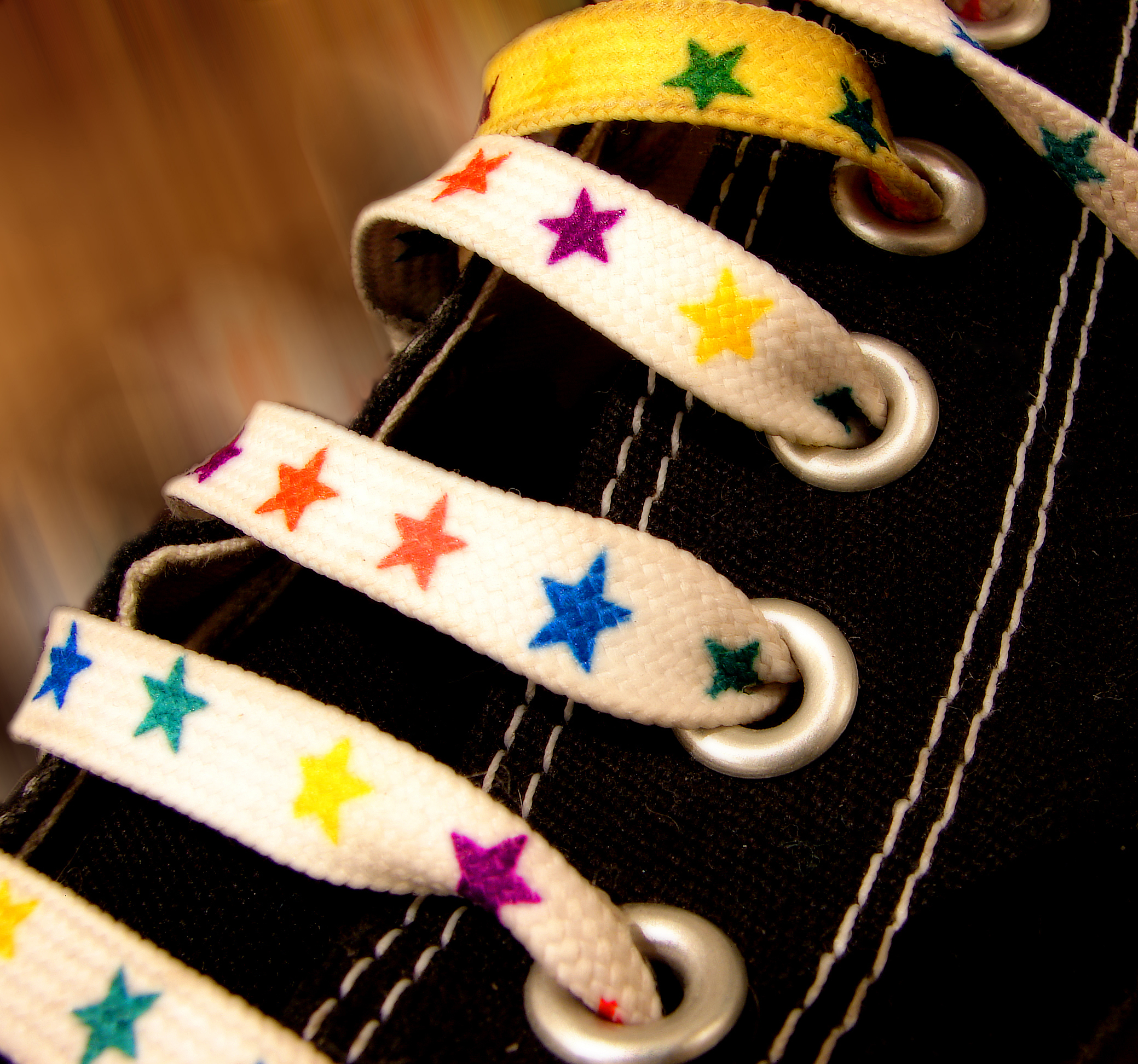 Today is very rainy, wet and cold, so for my photo of the day I took a picture of the shoelaces on my daughters favourite shoes, Converse Chucks. Sorry its not very exciting.